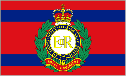 Royal Engineers Flag